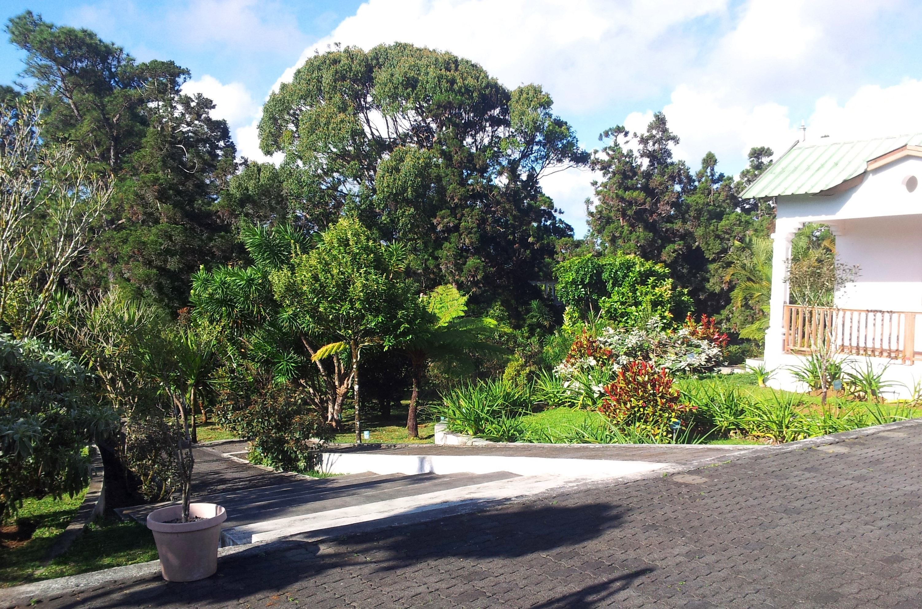 Entrance to the Arboretum beside the visitors centre - Monvert Nature Park in Curepipe Mauritius